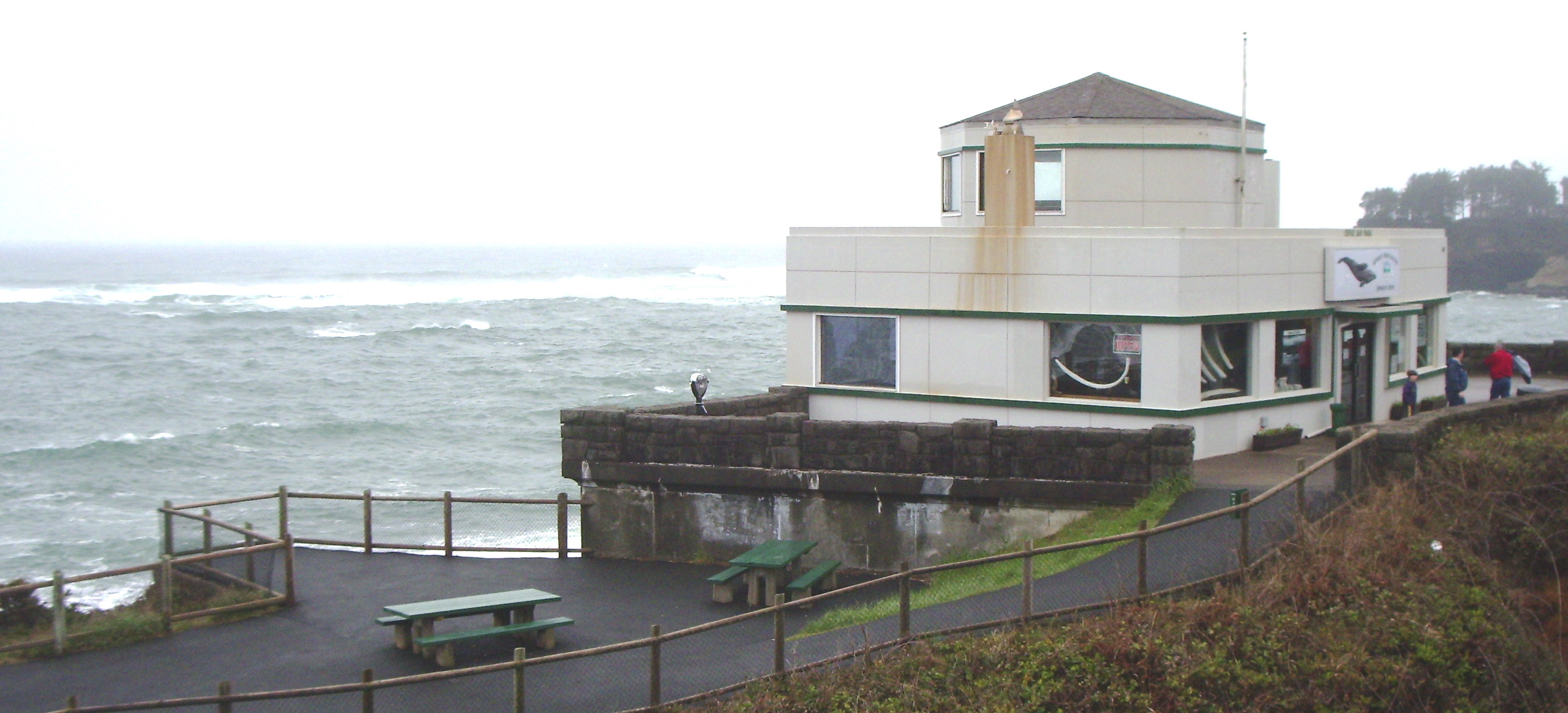 Whale Watching Center in Depoe Bay, Oregon is part of the Oregon State Parks and provides free guidance to observing migrating whales, history, statistics and other information